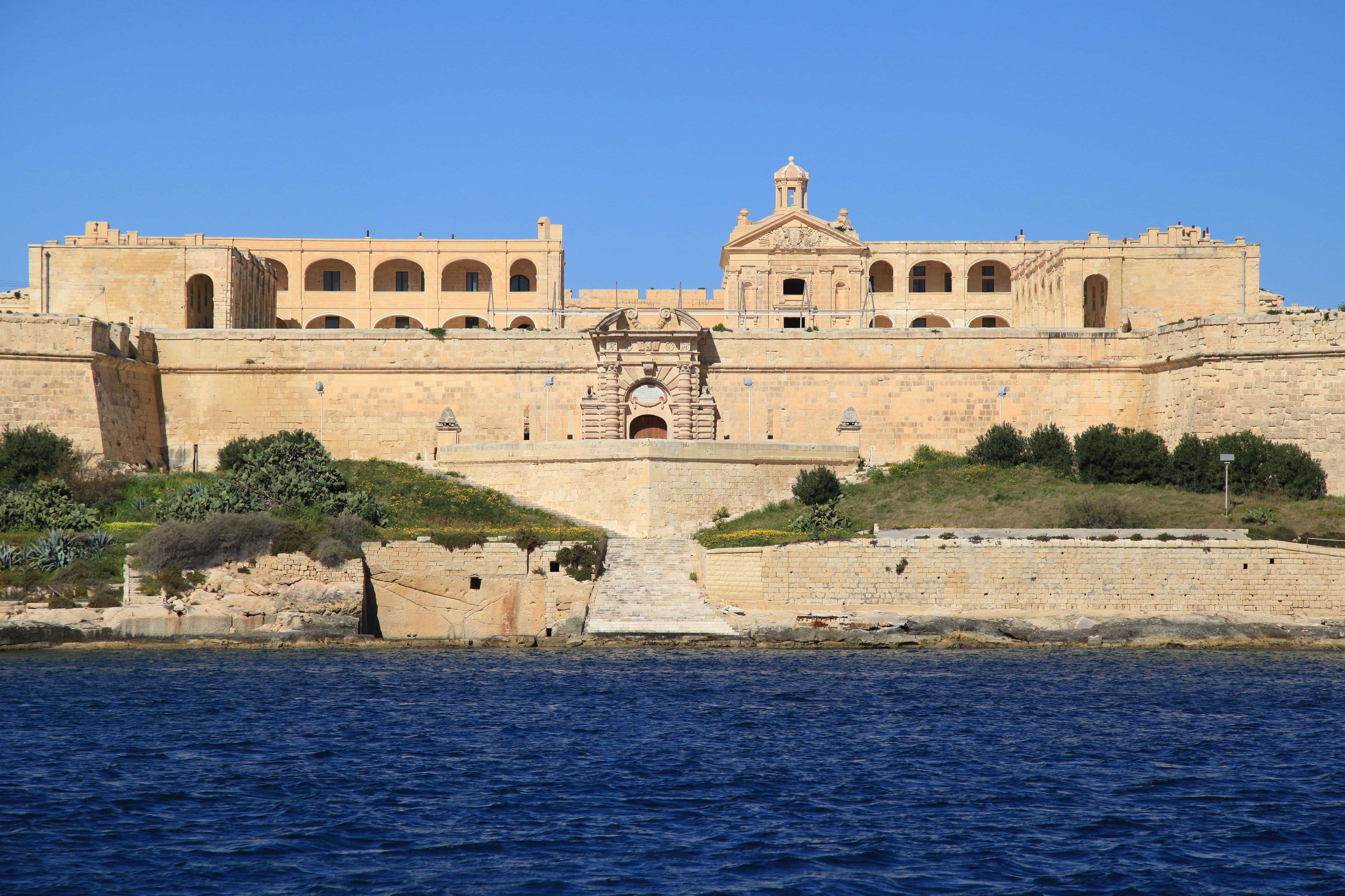 View from a Malta sightseeing two harbours cruise boat to Fort Manoel on Manoel Island in Gżira, Malta